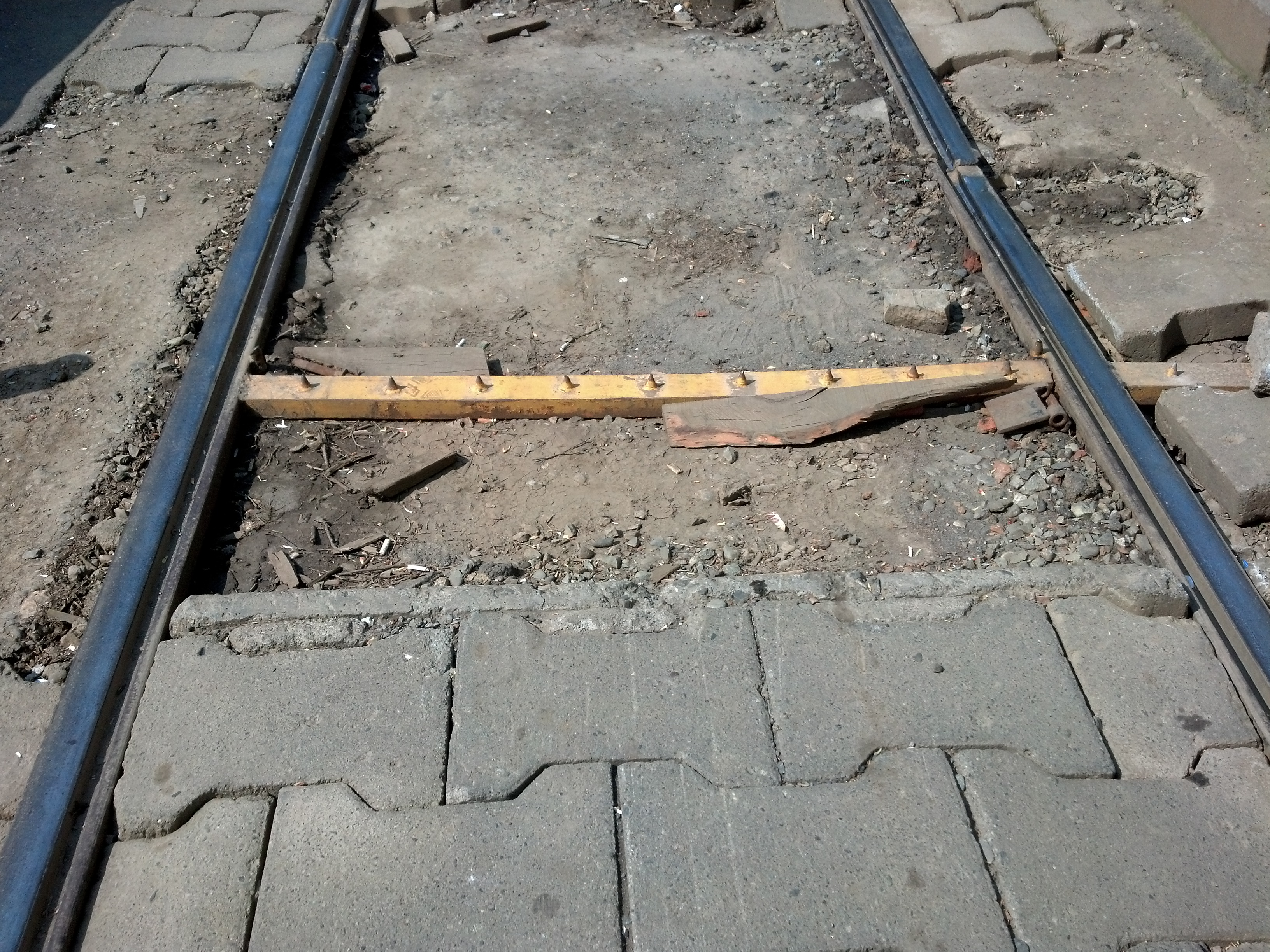 Tram track, Vladikavkaz, North Ossetia, Russia